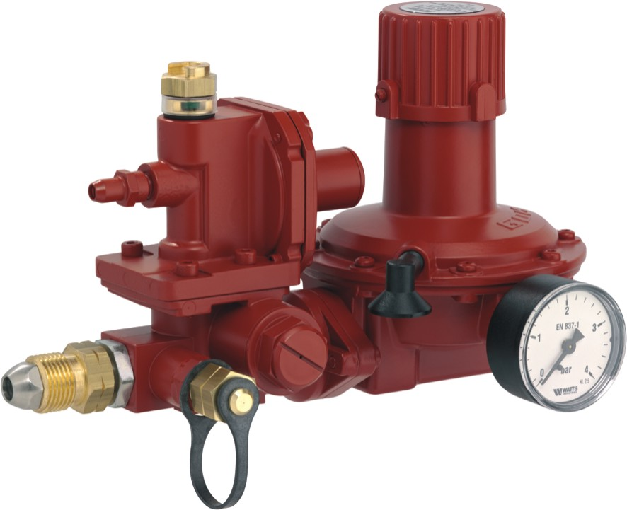 Регулятор давления СУГ второй ступени